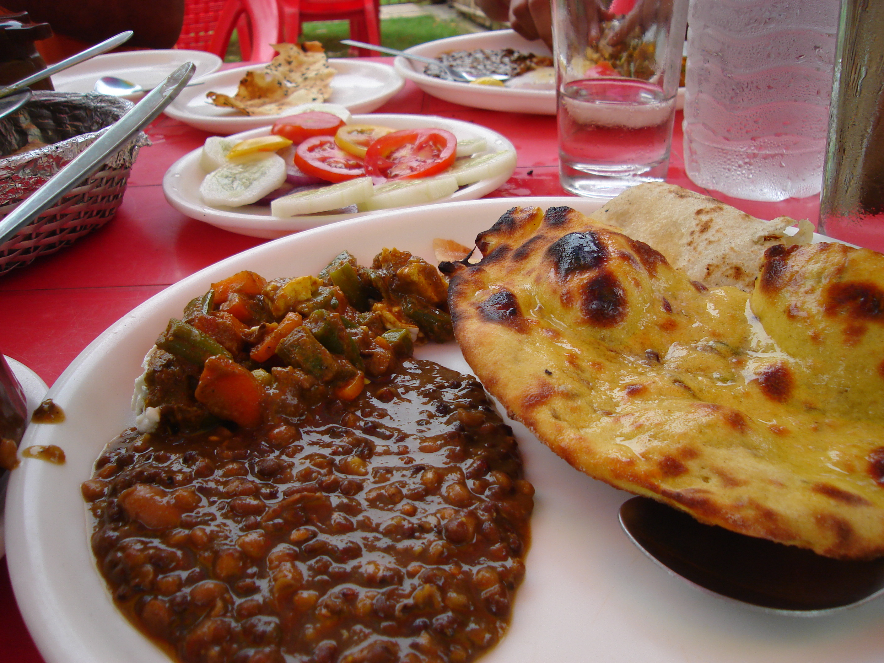 Food at a local outdoor Dhaba in Punjab.